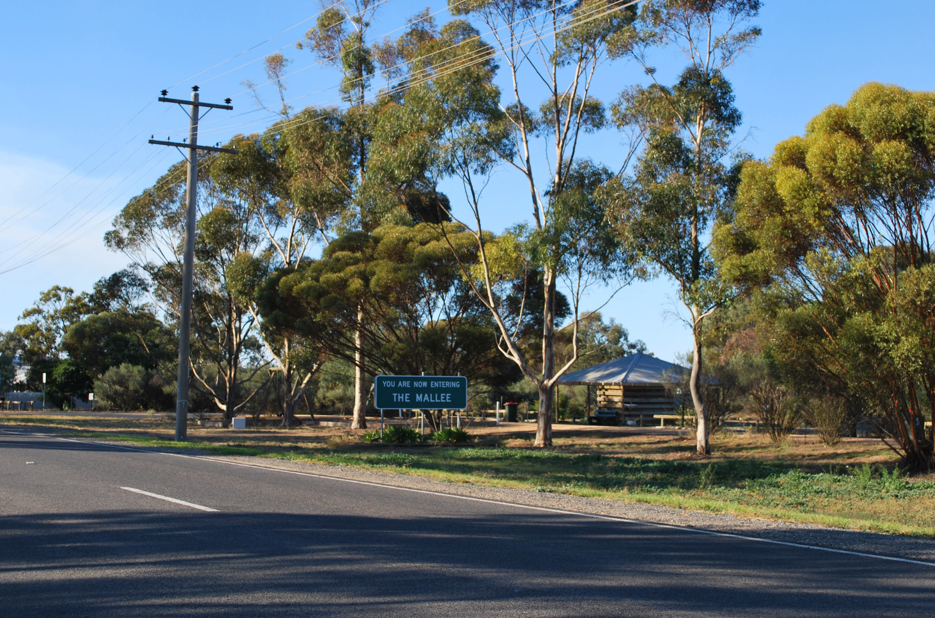 Sign proclaiming that "You are entering the Mallee" at Birchip, Victoria